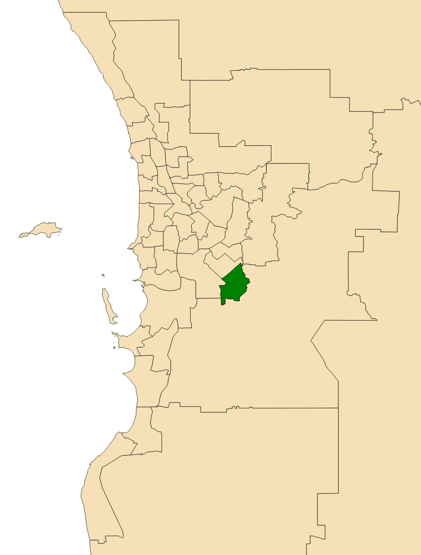 Location of the electoral district of Armadale in the Perth metropolitan area, Western Australia as of the 2017 WA state election.